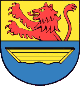 Coat of arms of the municipality Schnakenbek in Schleswig-Holstein, Germany.